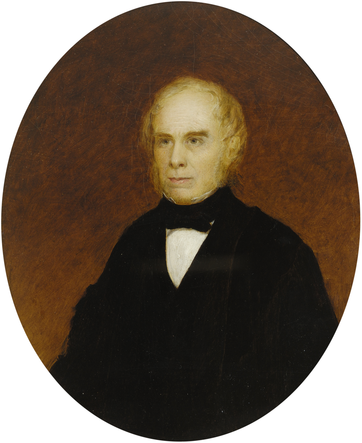 Oval half-length formal portrait of Scottish naturalist and ornithologist, William MacGillivray (1796 – 1852) in middle age. He is wearing formal dress with black bow tie and academic robes, presumably in his role as Professor of Natural History at Marischal College, Aberdeen, which he took up in 1841, making this the most likely date for the work. The painter is unknown. Collection of the University of Aberdeen.